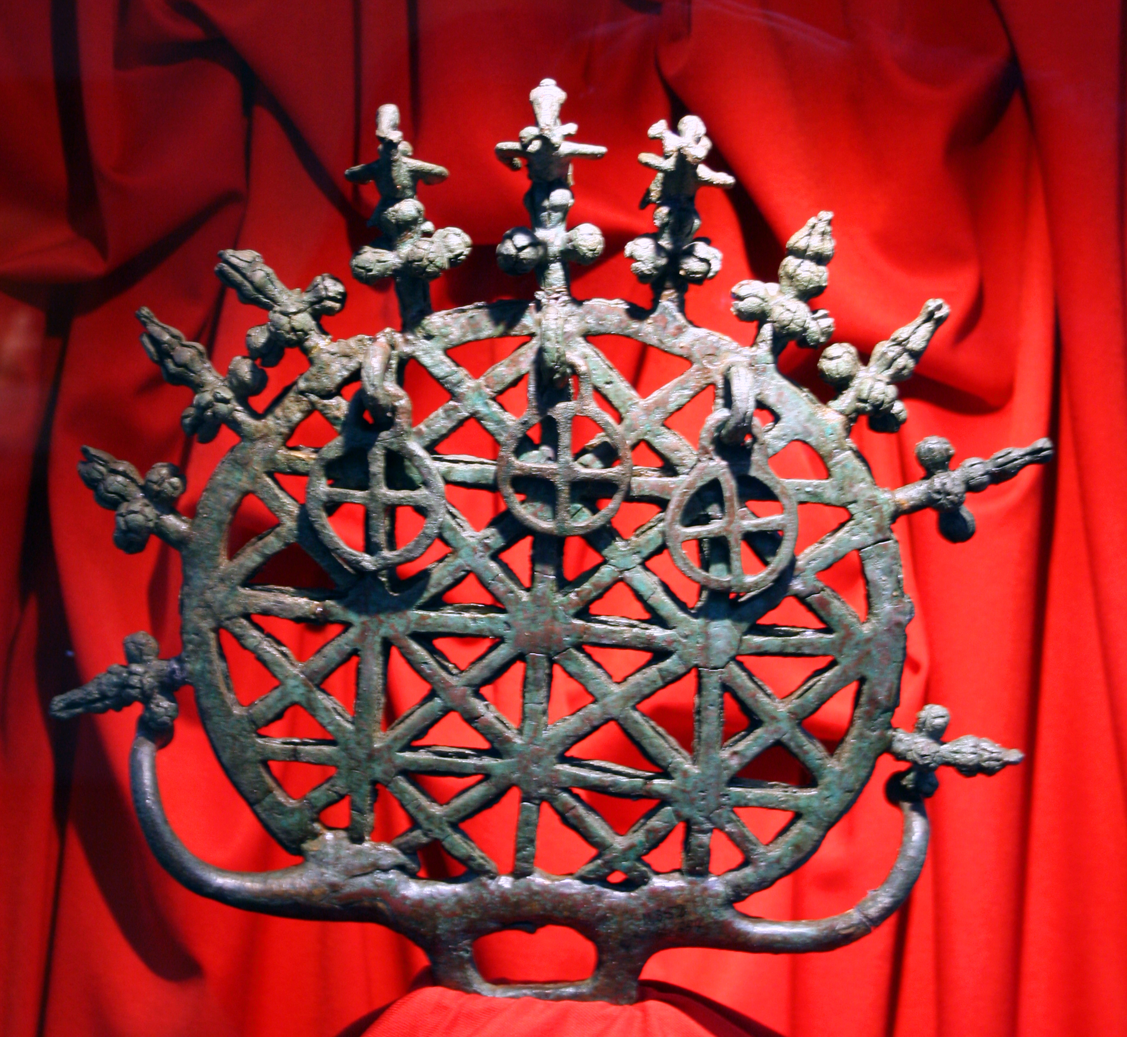 One of the 13 sun disks found in tombs in Alacahöyük, which is an archaeological site in Turkey. This sun disk, along with the others found in the tombs, dates back to early Bronze Age. They are assumed to have some ritual importance, but the reason why they were placed in the tombs remains uncertain.